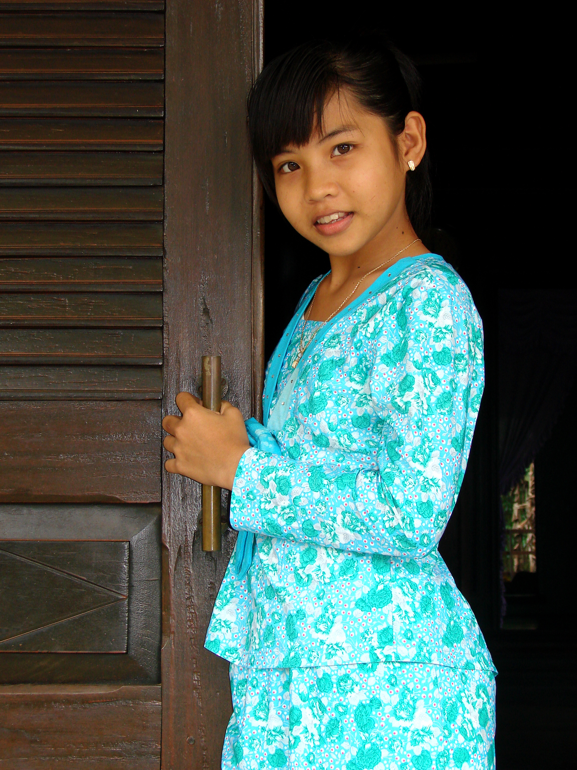 Muslim Cham girl, village near Chau Doc, Mekong delta, Vietnam. July 2009.